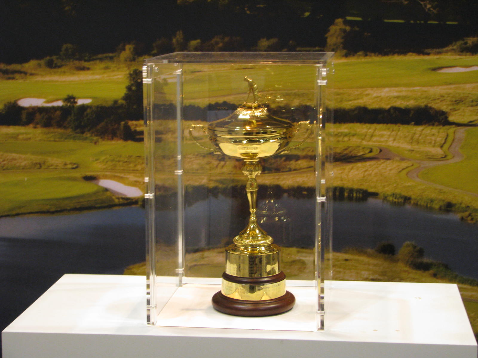 Ryder Cup displayed at the 2008 PGA Show